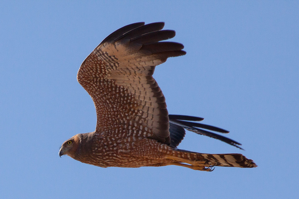 Spotted Harrier (Circus assimilis), Birdsville Track, South Australia.